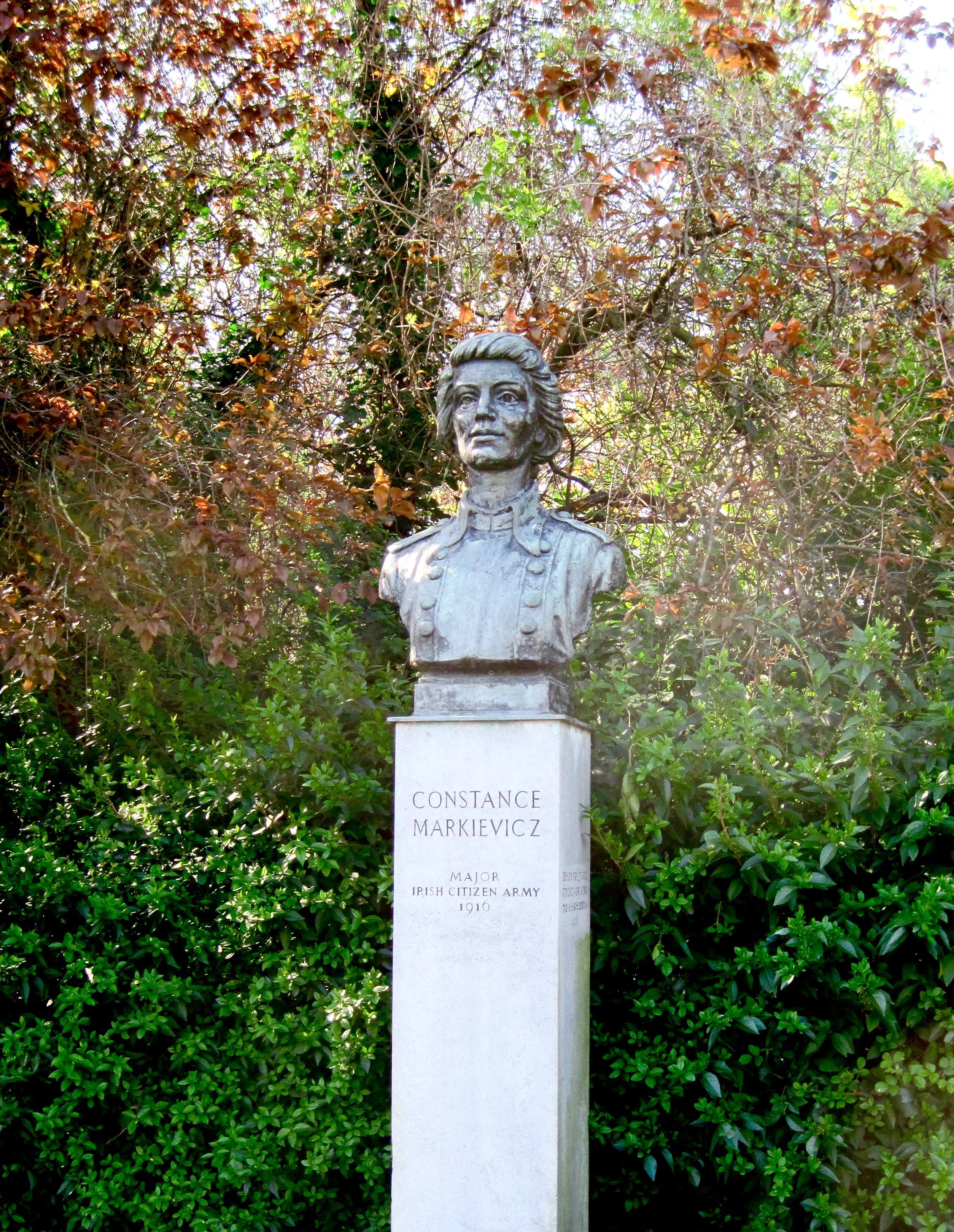 St Stephens Green